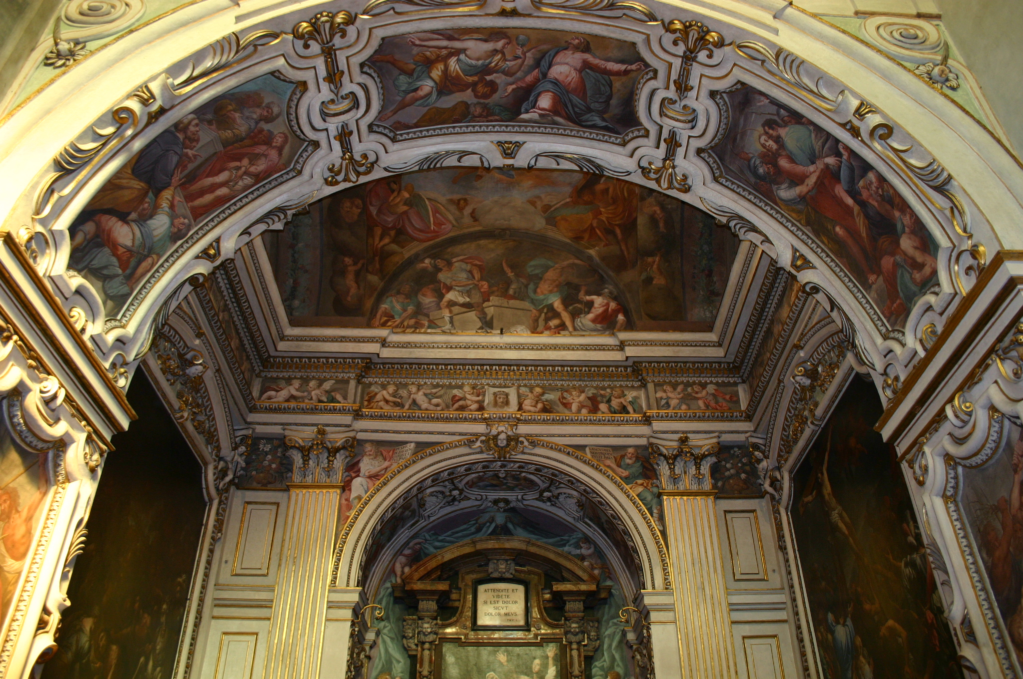 Pietà chapel, in the left hand transept of Saint Mark church in Milan (Italy). Picture by Giovanni Dall'Orto, April 14 2007.